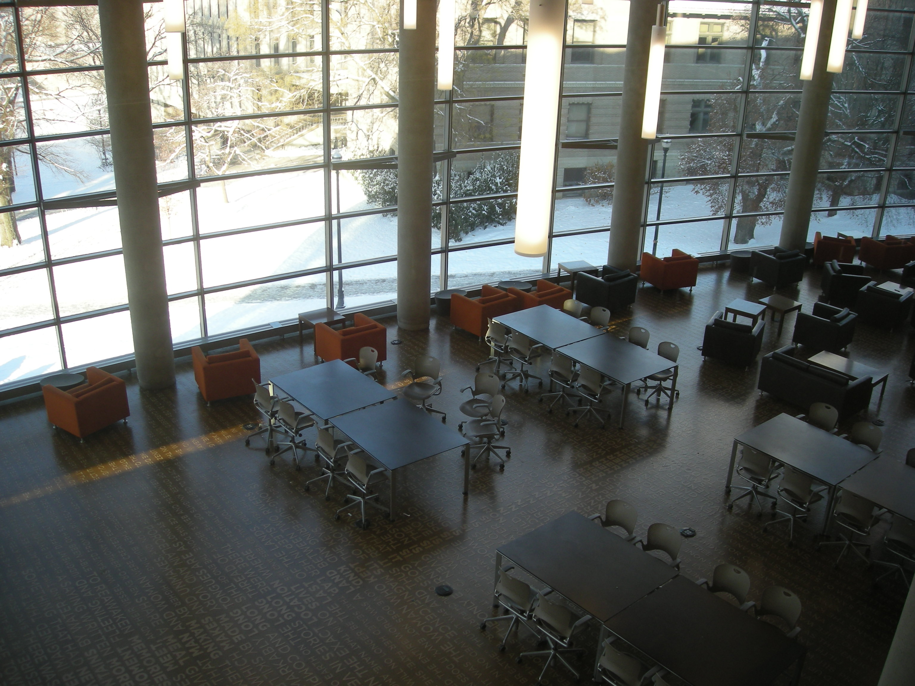 The Thompson Library on the campus of The Ohio State University in Columbus, Ohio (United States).